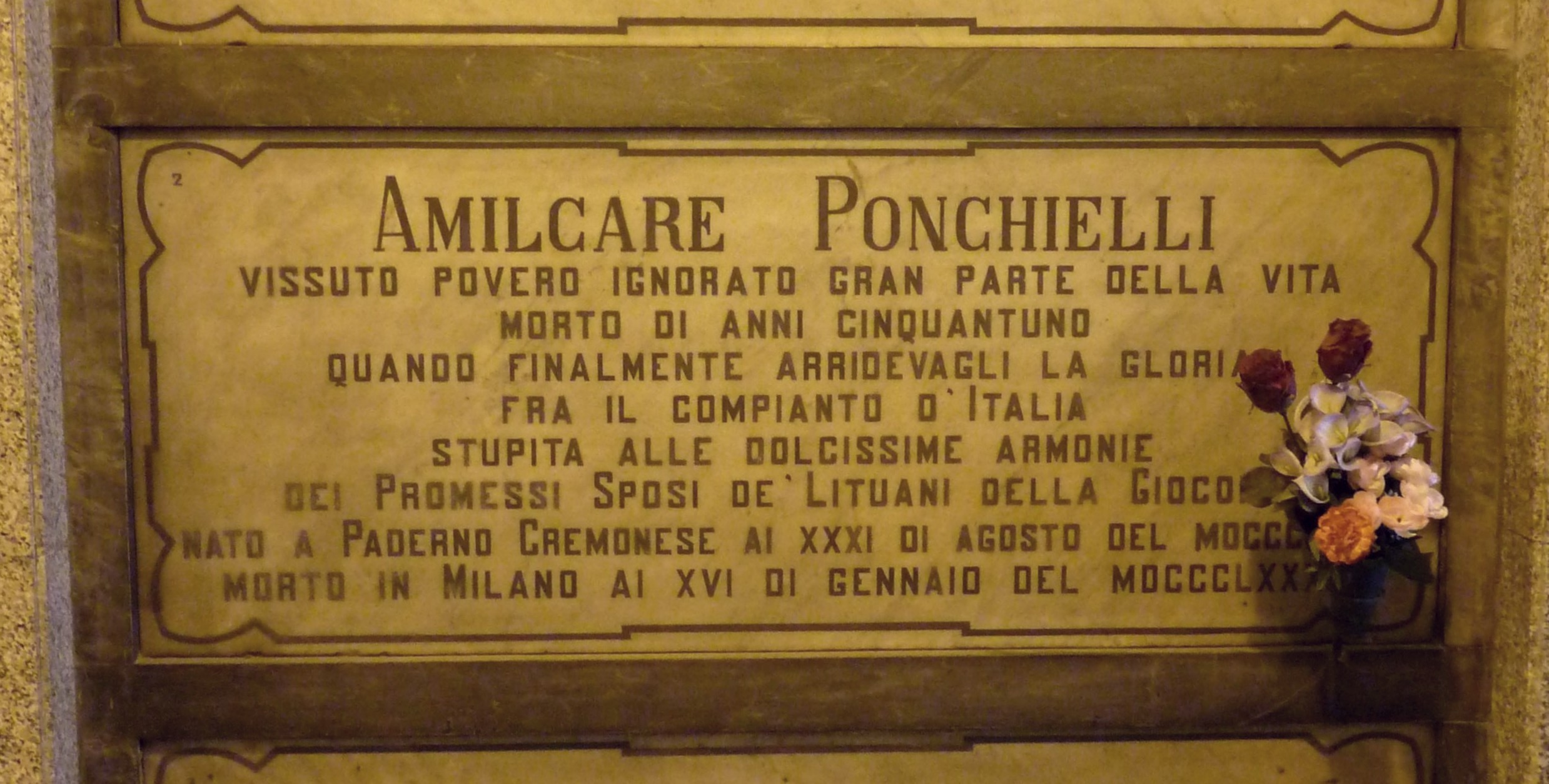 The grave of Italian composer Amilcare Ponchielli at the Monumental Cemetery of Milan, Italy.